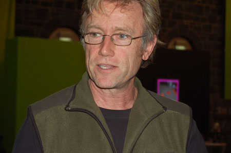 Australian science fiction and fantasy writer and editor Paul Collins at Convergence 2, Australian National Science Fiction Convention, Melbourne. Photographed by Catriona Sparks.